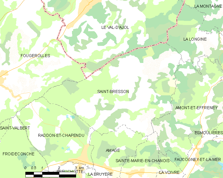 Map of French municipality